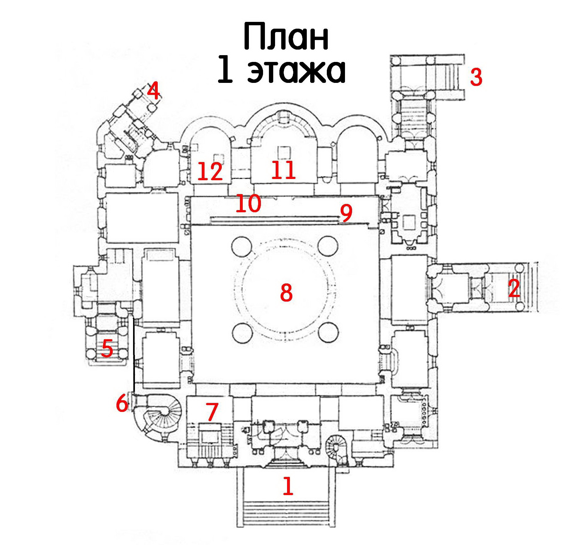 Tsarskoye Selo (Russia), Feodorovsky Cathedral in Tsarskoye Selo. First floor plan